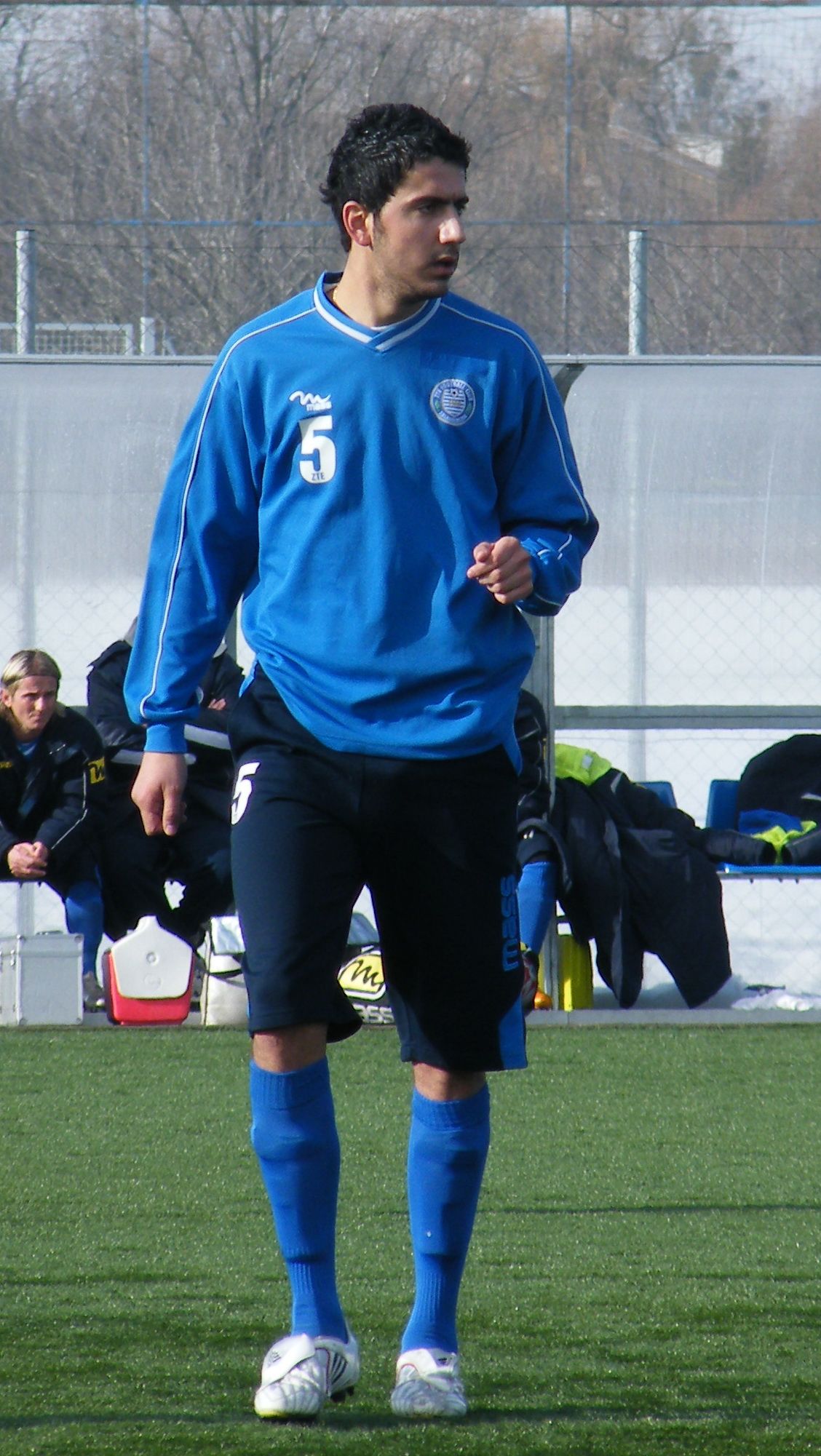 Darko Pavićević association football player from Montenegro.